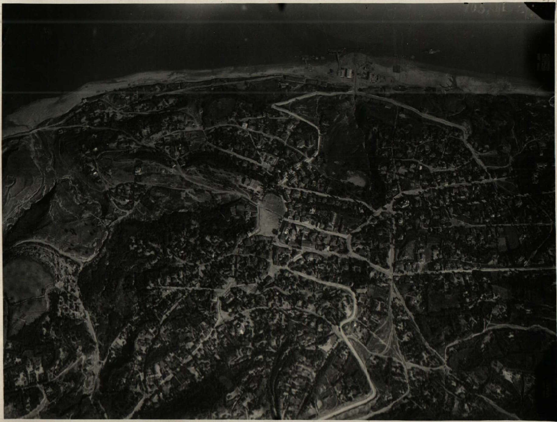 Oryahovo, Bulgaria, as seen from the air. Picture taken between 1927 and 1934.